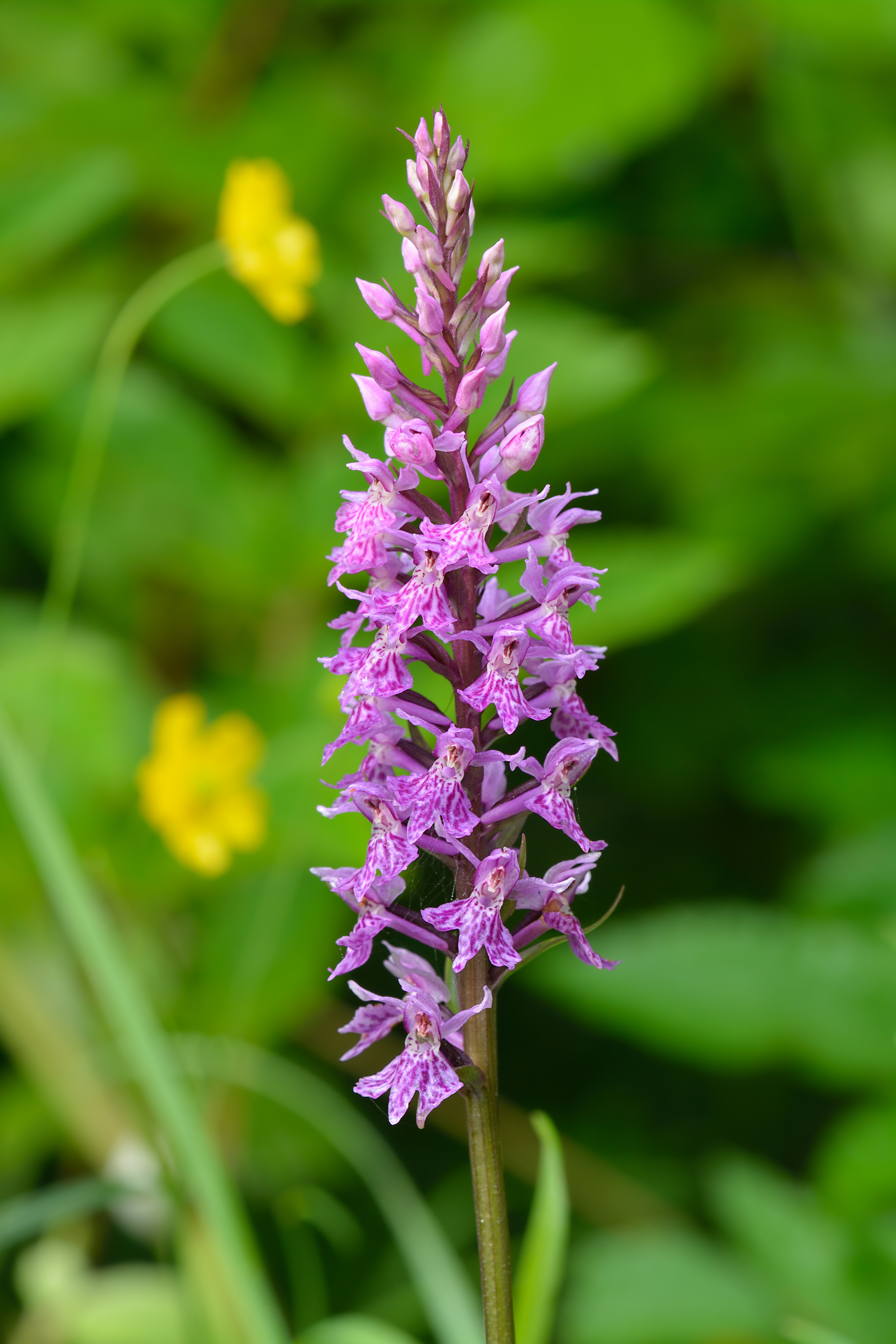 Common spotted orchid (Dactylorhiza fuchsii) on Pakri Peninsula, Northwestern Estonia.